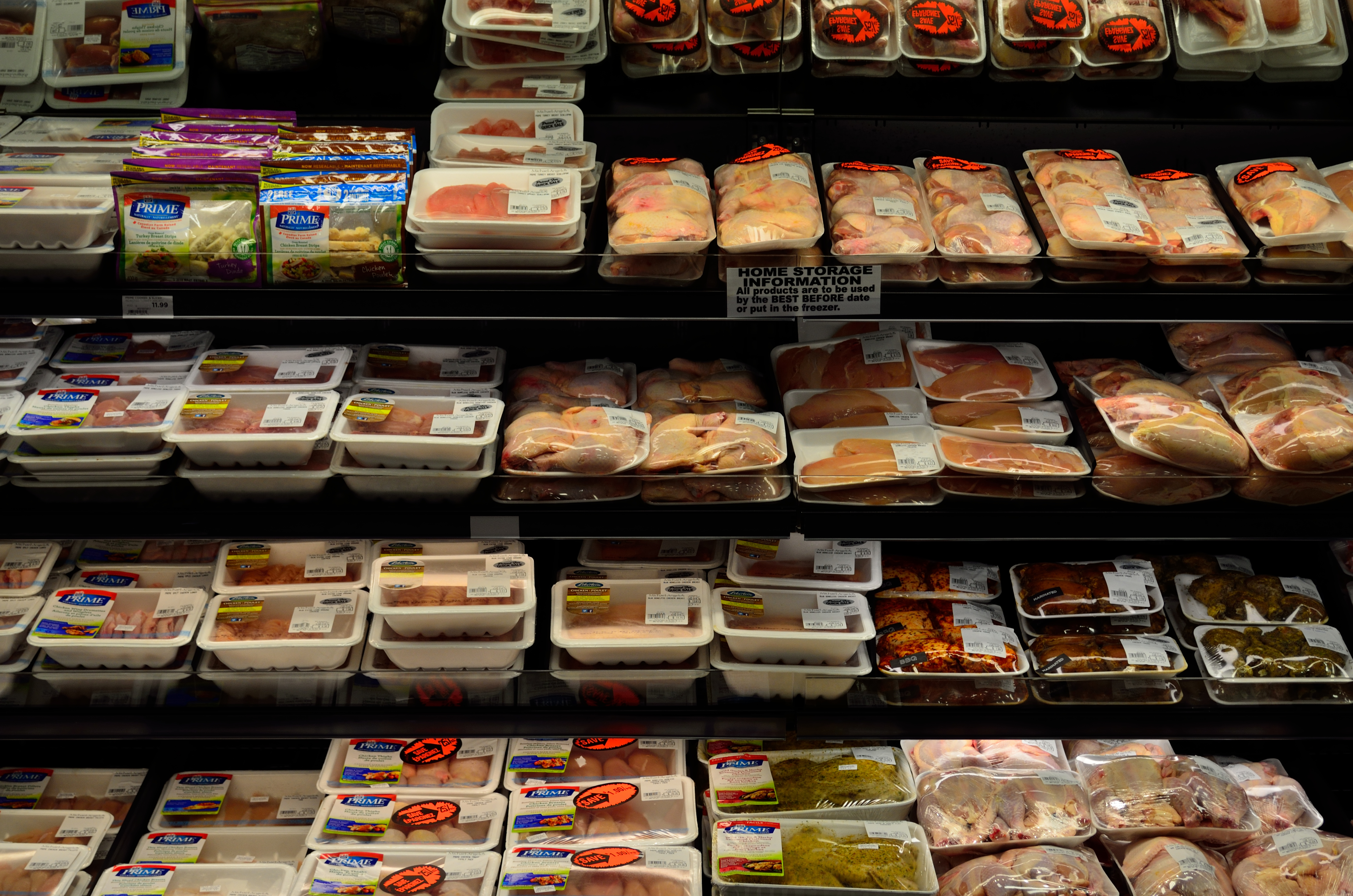 Chicken wings, chicken legs, turkey breast strips, etc.